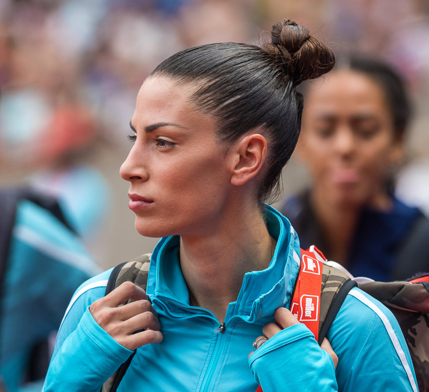 Ivana Španović, Diamond League, Lozzana, 2017